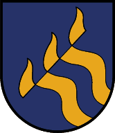 Source: "Fahnen-Gärtner GmbH, Mittersill" This file depicts a coat of arms. The composition of coats of arms are generally public domain with respect to copyright laws, and may be reproduced freely. This corresponds to the international traditional usage, and is explicitly stated in some national copyright laws. Some compositions, of more recent origin, may be copyrighted. This is not a valid license as such, being a "public domain" statement for the coat of arms definition only. It must be completed with the copyright tag associated to the picture creation. See Commons:Coats of arms for further information. Please note that this applies only to the coat of arms definition (composition / description). The representation of a coat of arms is an artistic creation, subject as such to copyright laws. Restriction of use - Legal notice: Most of the time, the usage of coats of arms is governed by legal restrictions, independent of the status of the depiction shown here. A coat of arms represents its owner. Though it can be freely represented, it cannot be appropriated, or used in such a way as to create a confusion with or a prejudice to its owner. Usage on Commons: Please provide licence information for the coat of arm representation, information for the author of the picture, and the source if not self-made work. This image is in the public domain according to Austrian copyright law because it is part of a law, ordinance or official decree issued by an Austrian federal or state authority, or because it is of predominantly official use. (§7 UrhG) To uploader: Please provide where the image was first published and who created it.